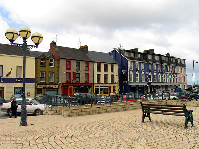 Bantry Town Centre. This view was taken from the west side of the town centre at the tourist information office, more or less looking south west towards the harbour. There are some good eating places in this line of buildings.